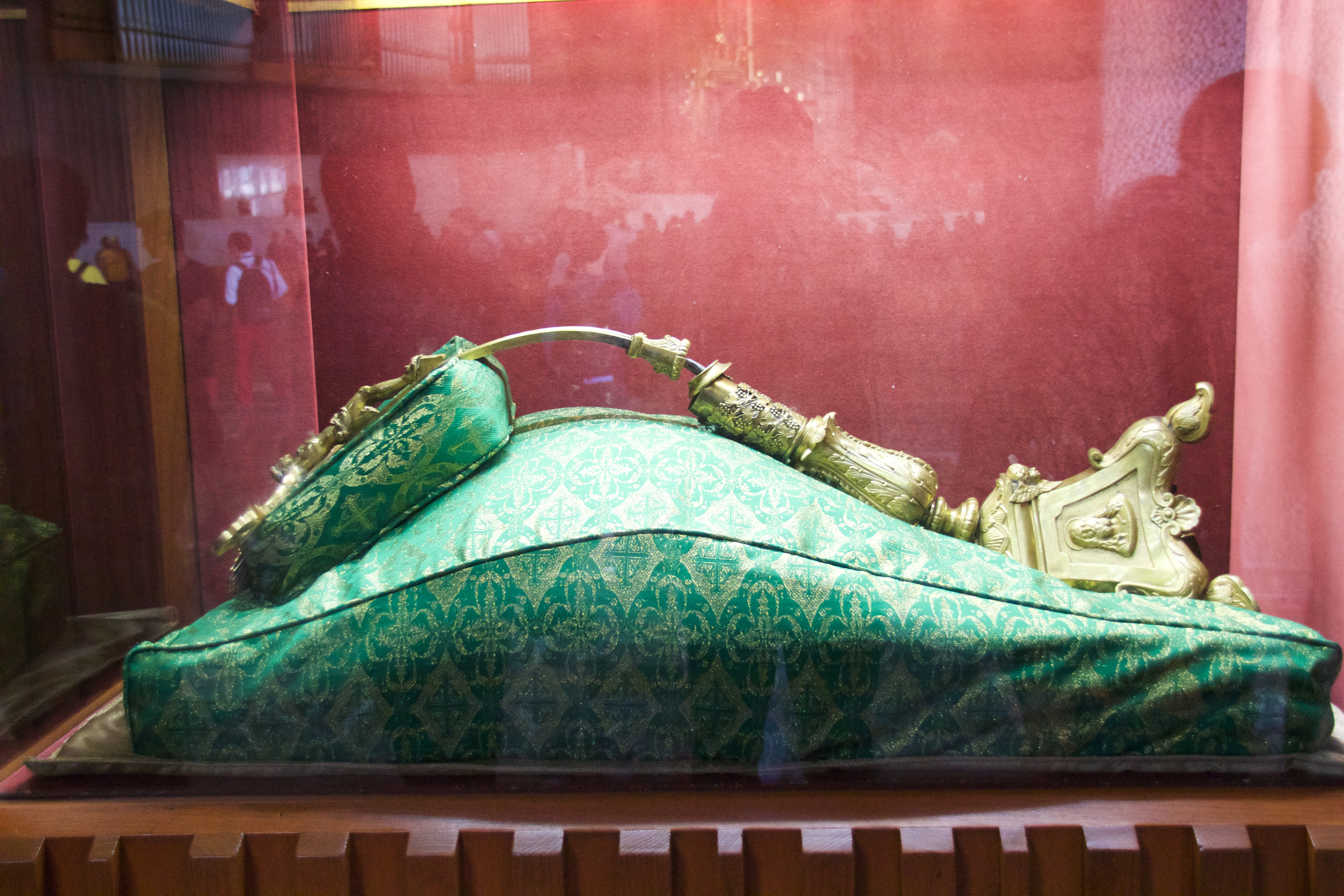 Basilica of Our Lady of Guadalupe, Mexico, part of Wiki Loves Pyramids.